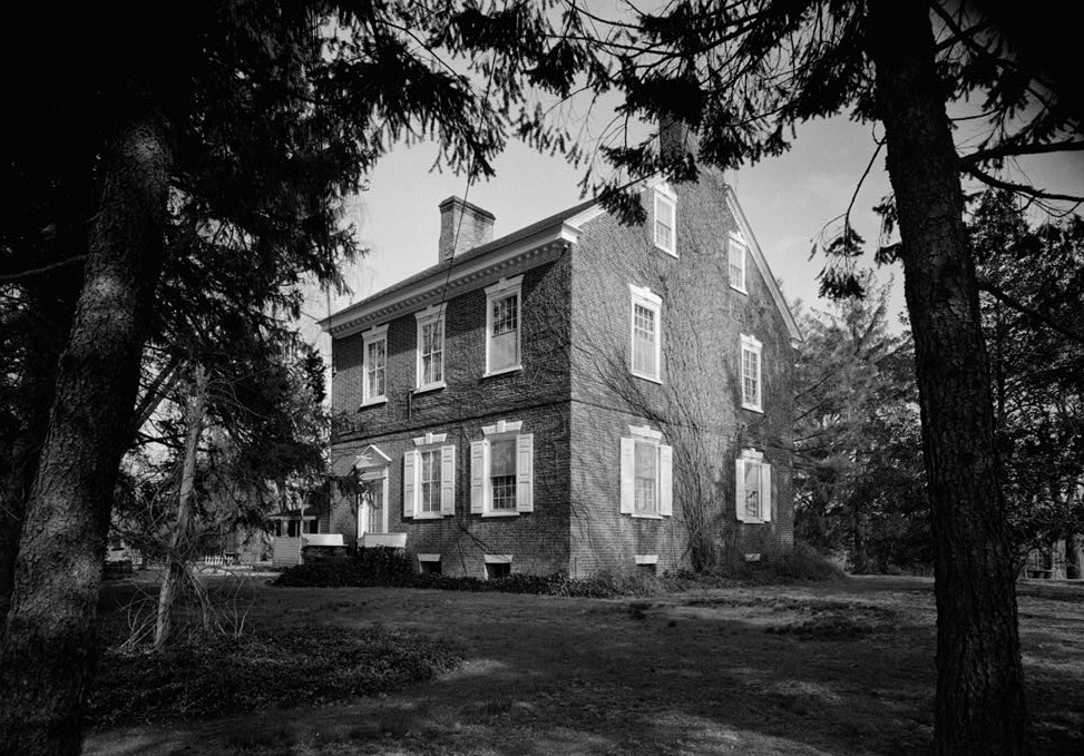 Mordington, Canterbury-Milford Road, Frederica vicinity (Kent County, Delaware) cropped This file comes from the Historic American Buildings Survey (HABS), Historic American Engineering Record (HAER) or Historic American Landscapes Survey (HALS). These are programs of the National Park Service established for the purpose of documenting historic places. Records consist of measured drawings, archival photographs, and written reports. When reusing please credit: Library of Congress, Prints & Photographs Division, DEL,1-FRED.V,1-3 This tag does not indicate the copyright status of the attached work. A normal copyright tag is still required. See Commons:Licensing. This work is in the public domain in the United States because it is a work prepared by an officer or employee of the United States Government as part of that person’s official duties under the terms of Title 17, Chapter 1, Section 105 of the US Code. Note: This only applies to original works of the Federal Government and not to the work of any individual U.S. state, territory, commonwealth, county, municipality, or any other subdivision. This template also does not apply to postage stamp designs published by the United States Postal Service since 1978. (See § 313.6(C)(1) of Compendium of U.S. Copyright Office Practices). It also does not apply to certain US coins; see The US Mint Terms of Use. This file has been identified as being free of known restrictions under copyright law, including all related and neighboring rights.